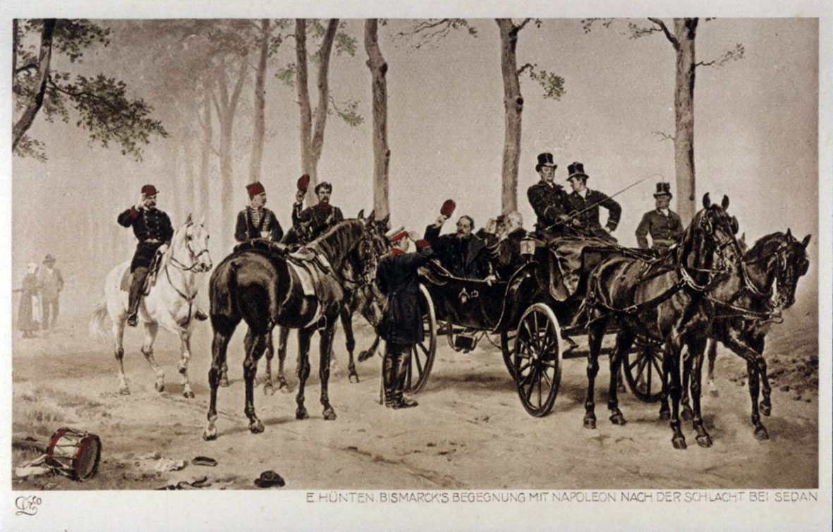 Bismarck meets Napoleon after the battle of Sedan. Postcard after a painting by Emil Hünten